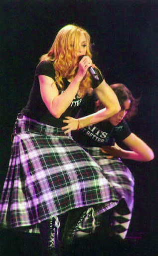 Picture taken at one of the concerts